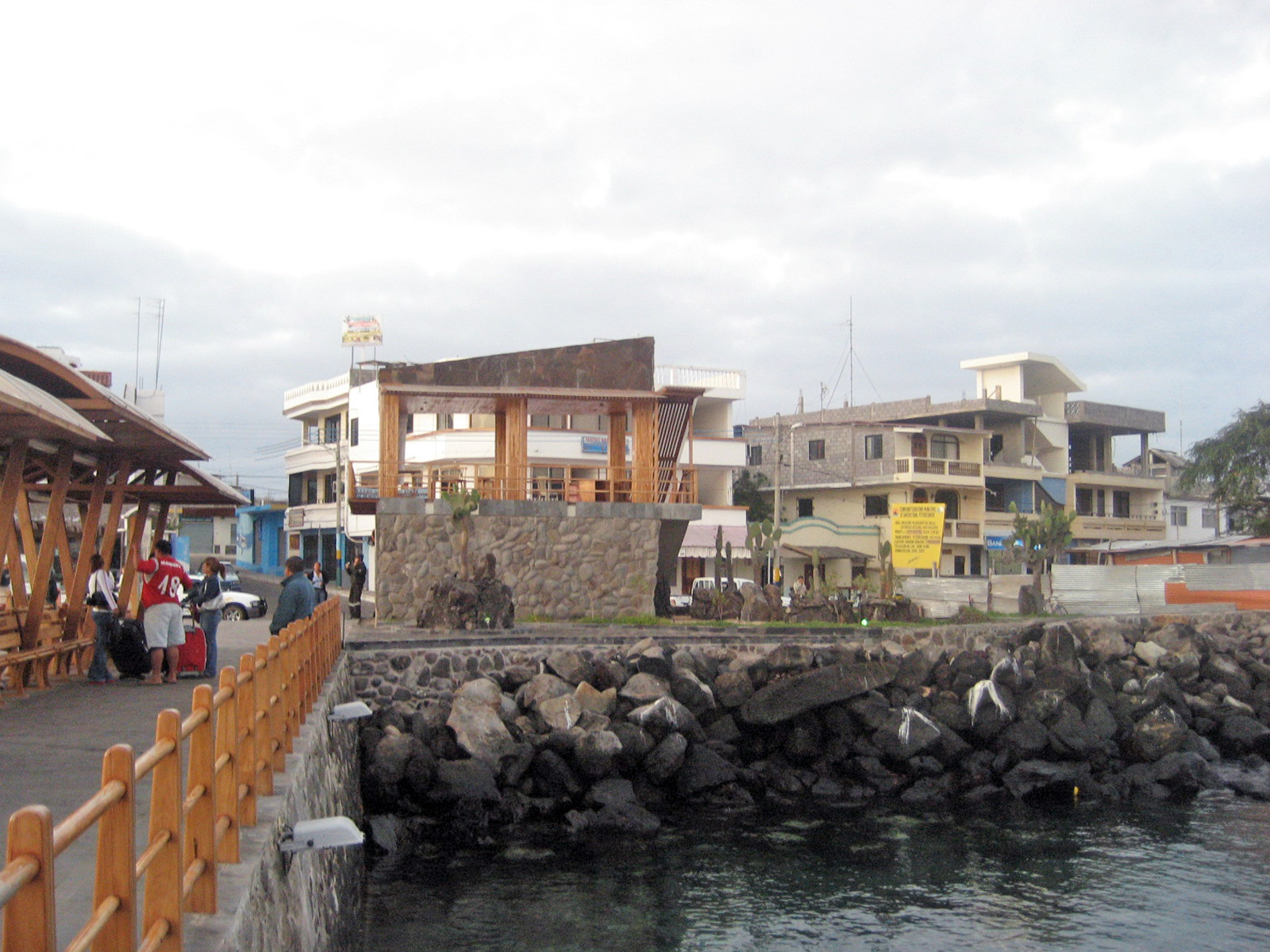 Port at San Cristoban